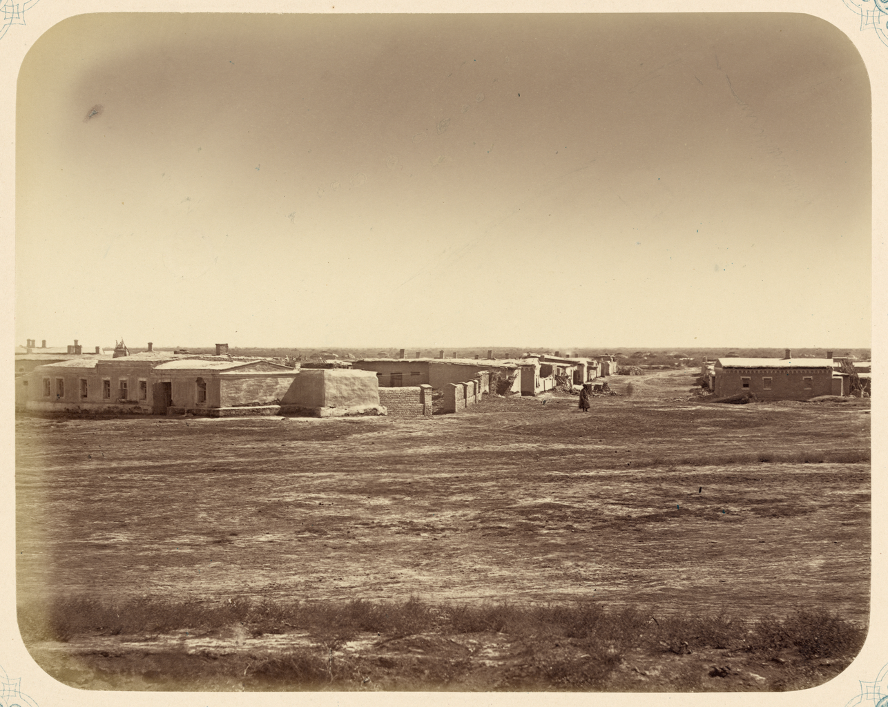 This photograph is from the ethnographical part of Turkestan Album, a comprehensive visual survey of Central Asia undertaken after imperial Russia assumed control of the region in the 1860s. Commissioned by General Konstantin Petrovich von Kaufman (1818–82), the first governor-general of Russian Turkestan, the album is in four parts spanning six volumes: “Archaeological Part” (two volumes); “Ethnographic Part” (two volumes); “Trades Part” (one volume); and “Historical Part” (one volume). The principal compiler was Russian Orientalist Aleksandr L. Kun, who was assisted by Nikolai V. Bogaevskii. The album contains some 1,200 photographs, along with architectural plans, watercolor drawings, and maps. The “Ethnographic Part” includes 491 individual photographs on 163 plates. The photographs show individuals representing the different peoples of the region (Plates 1–33); daily life and rituals (Plates 34–91); and views of villages and cities, street vendors, and commercial activities (Plates 92–163). Cities and towns; Ethnographic photographs; Forts and fortifications; Photographic surveys